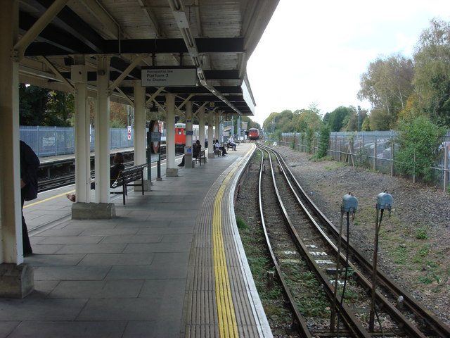 Chalfont & Latimer station, platform 3 This is where the shuttle service to Chesham departs from.